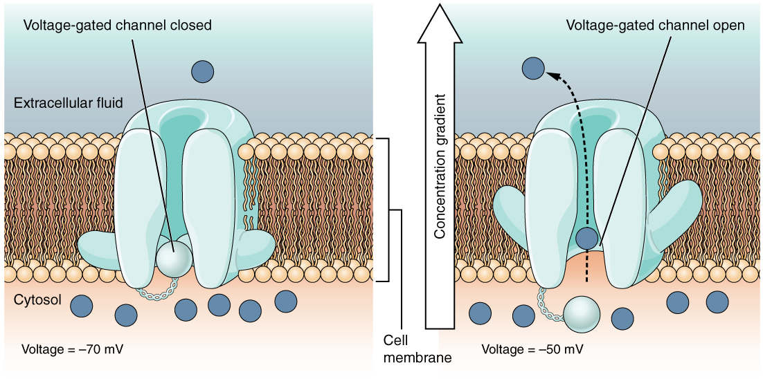 Version 8.25 from the Textbook OpenStax Anatomy and Physiology Published May 18, 2016